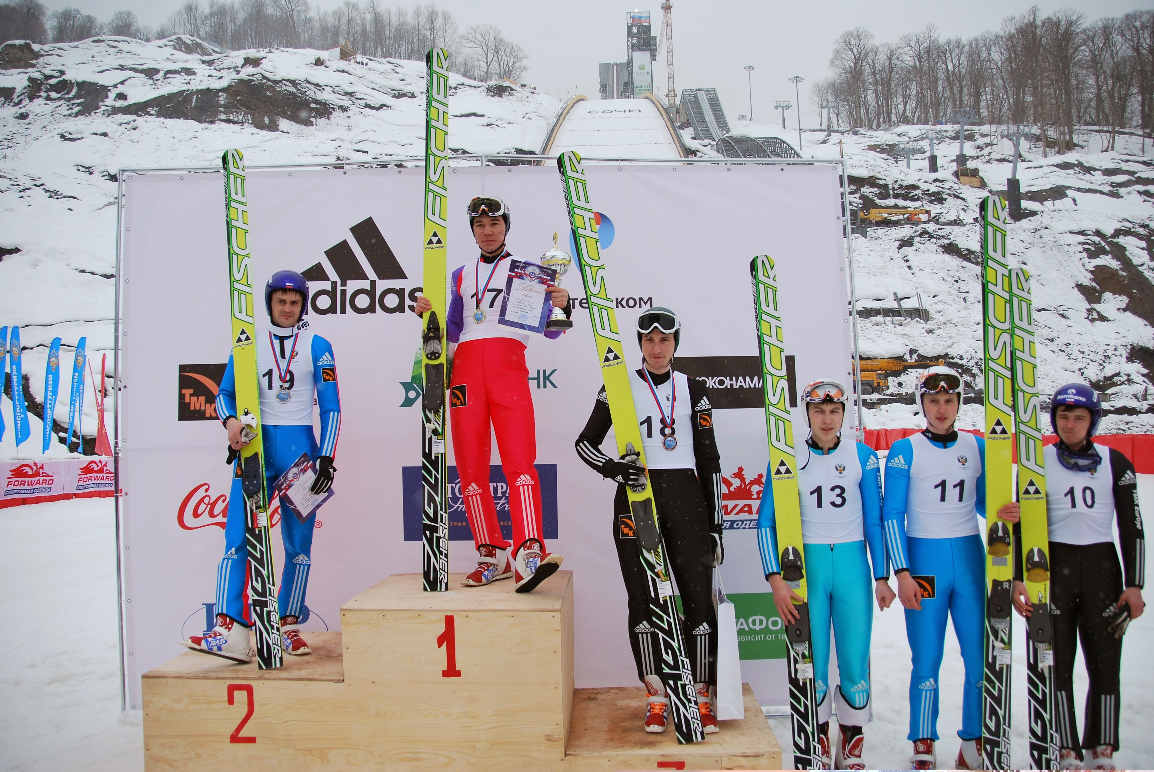 2012 Ski Jumping Russia Cup. Winners